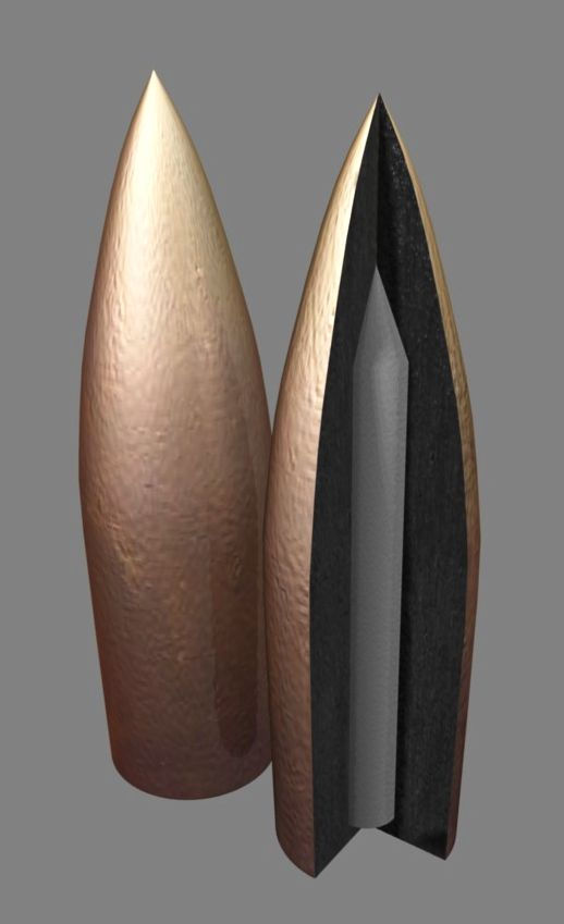 Armour-piercing shot. Is the drawn picture, and it may not correspond to a reality. About errors write, I will correct